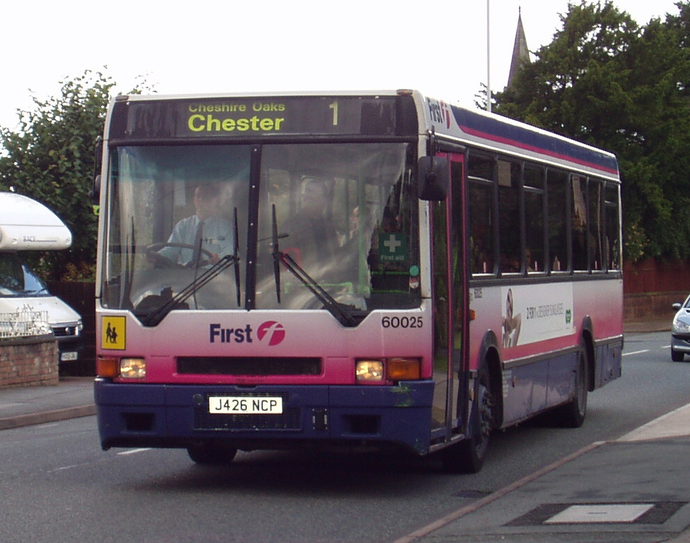 First Chester & The Wirral DAF SB220 bus with Ikarus bodywork in Bromborough on route 1. The appearance of this bus on this route is a rare occurrence, the route normally being operated using low floor Scania / Wright Solar buses. (Thanks to the helpful driver for enabling this photograph by pausing at the previous bus stop, allowing me to get into position to take it.)